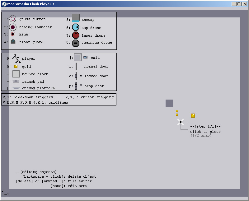 this is a screenshot from the editor in Metanet Software Inc's windows/mac/linux game, N. It was taken by Mare Sheppard (of Metanet). More info on the game can be found here: or